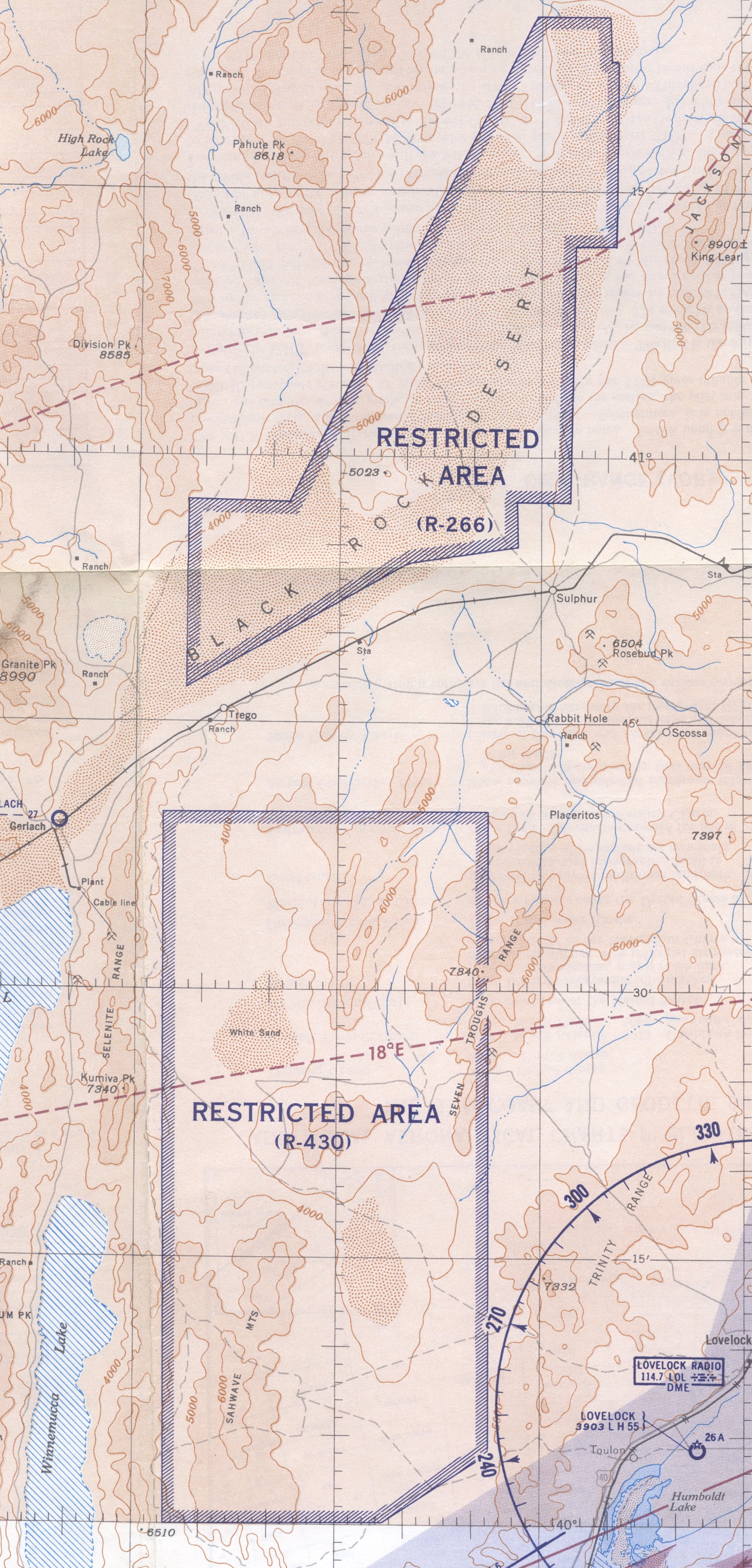 This 1955 Elko Sectional Aeronautical Chart shows the approximate location of the Black Rock Desert Gunnery Range. The back side of the map has a table titled "U. S. Prohibited, Restricted, Caution and Warning Areas on Elko Sectional Chart". The table states that R-266 is the "Black Rock Desert," which is has the following activities: "Air-to-Air Gunnery, Rocket and Bombing and Photo Flash Bombs." The table states that R-430 is the "Sahwave Mountains," which has the following activities: "Air-to-Air Gunnery." Both areas are used by the COMNABS 12th Naval District and have unlimited altitude and time. The "R" signifies that the areas are Restricted. The table states: "Unauthorized flight is not permitted within a Prohibited Area, or within a Restricted Area during the time of use and between the altitudes notes in the tabulation. (Authorization may be granted by the controlling agency or by Executive Order of the President)."